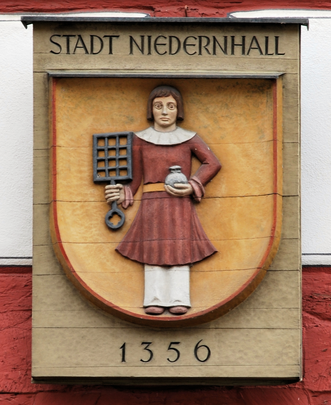 City arms of Niedernhall, Germany. It shows Saint Lawrence of Rome.